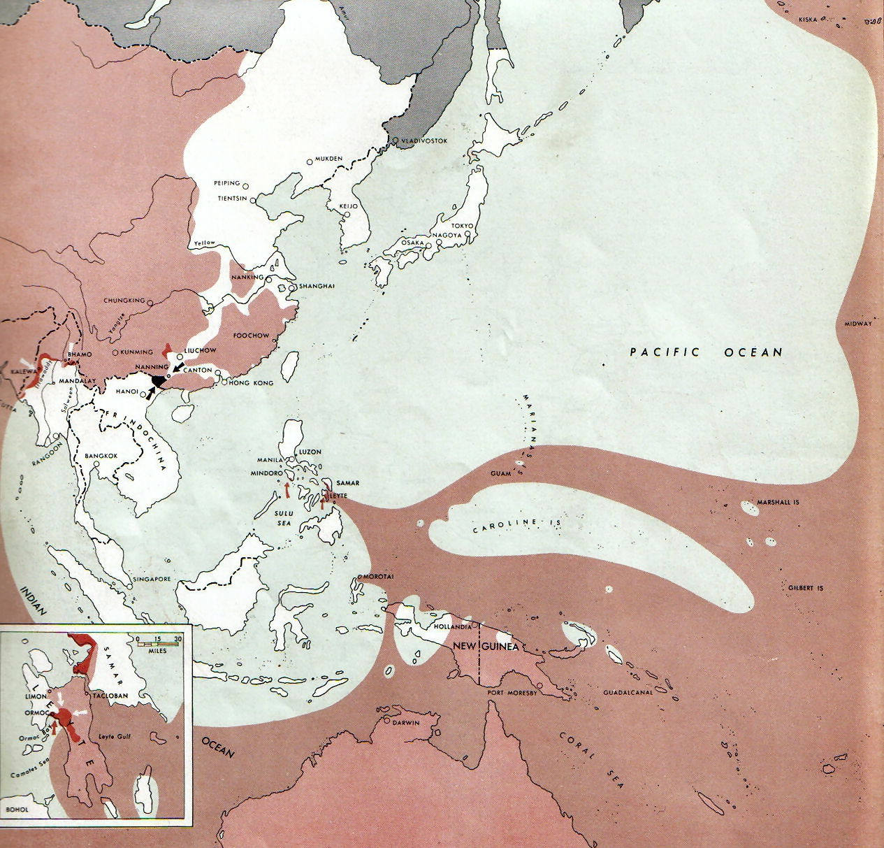 Map of the front against Japan as of 15 Dec 1944: This map is taken from the source "Atlas of the World Battle Fronts in Semimonthly Phases to August 15th 1945: Supplement to The Biennial report of The Chief of Staff of the United States Army July 1, 1943 to June 30 1945 To the Secretary of War". (See Cover, Forward and Map details)